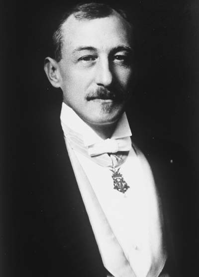 George F. Shiels, Surgeon, United States Army, awarded the Medal of Honor for actions in the Indian Wars